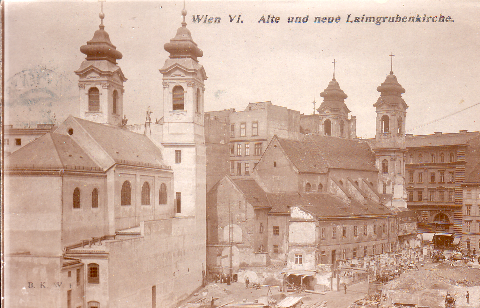 Laimgrubenkirche old/new